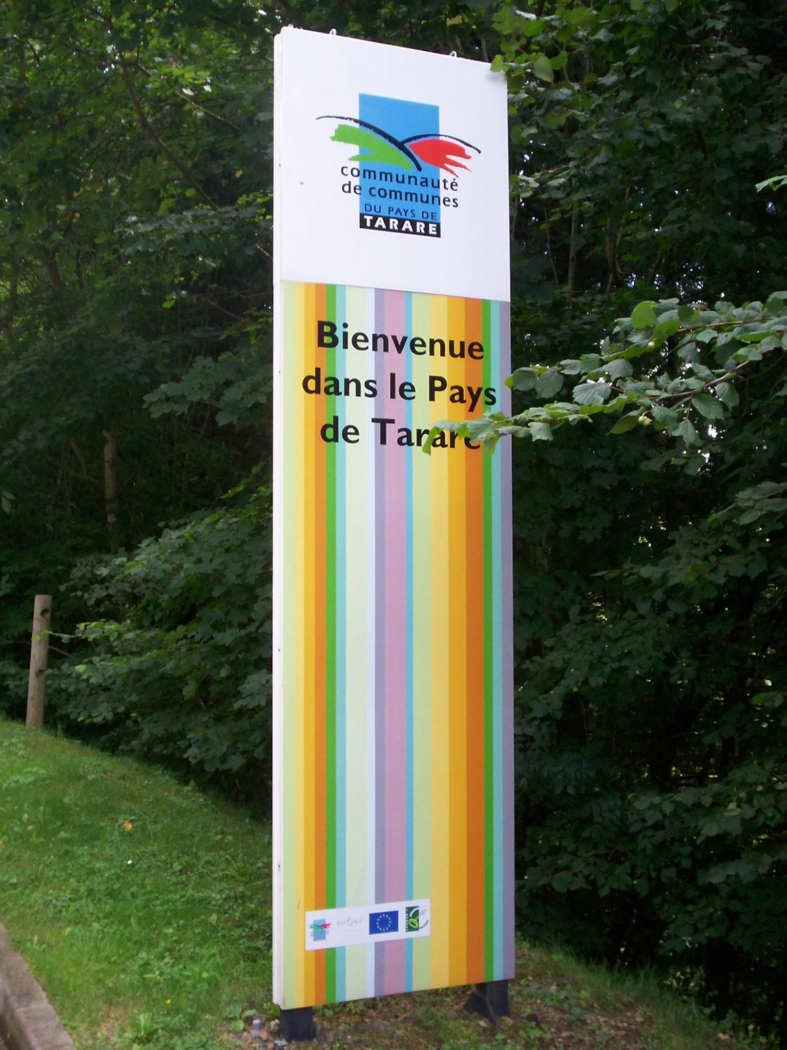 Sign welcoming to the Communauté de communes du Pays de Tarare